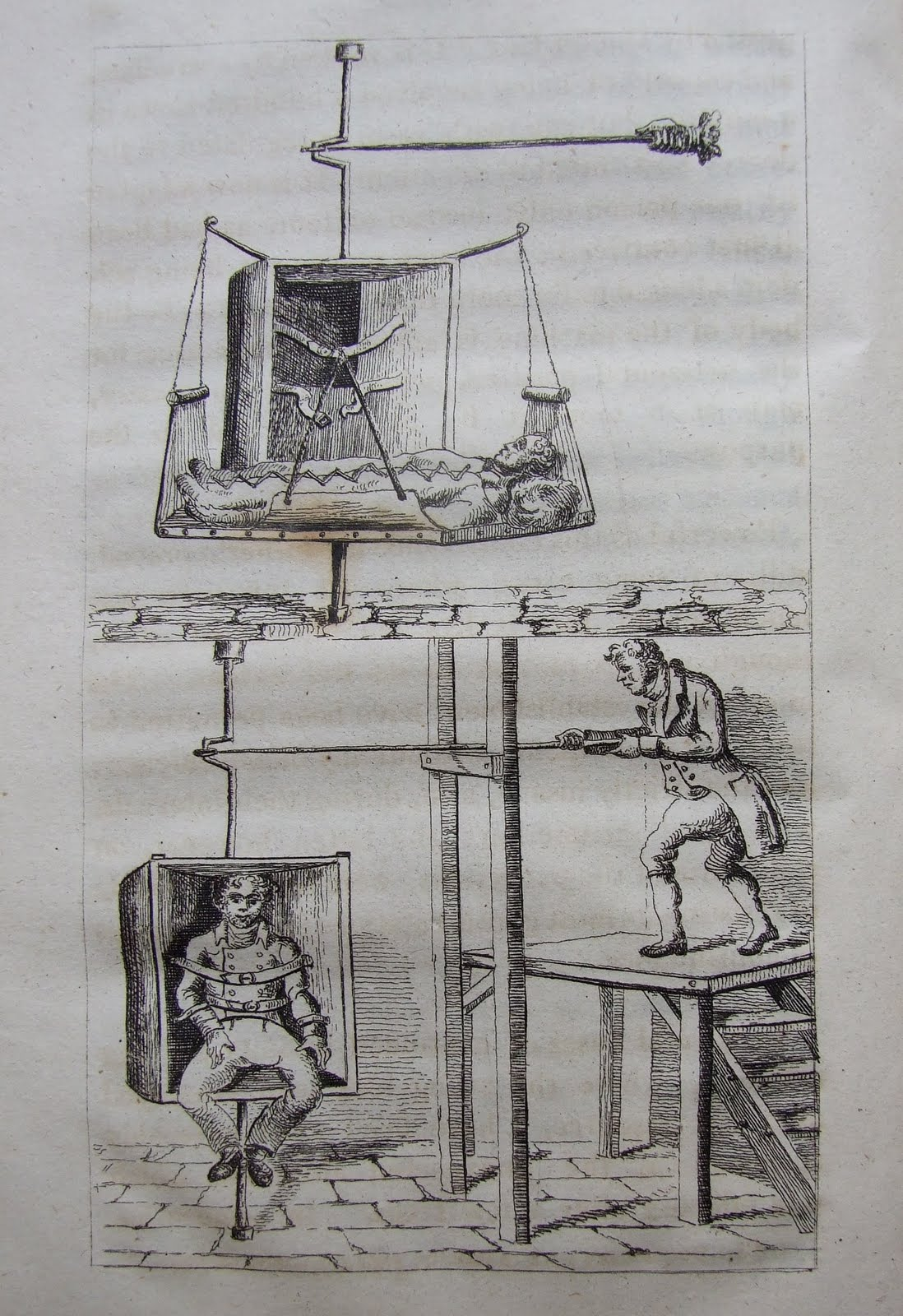 Hallaran's chair. Rotating mental ill persons for treatment.